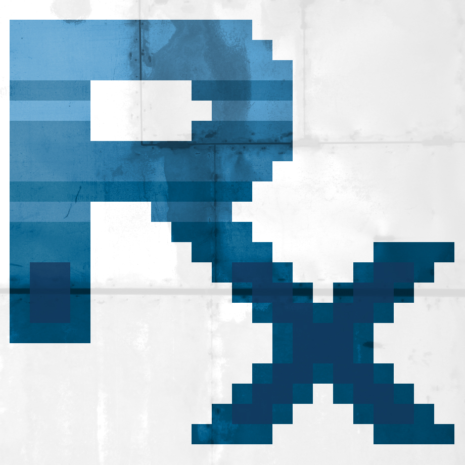 Derivation of the official Doctor Octoroc logo, originally designed by Jude Buffum.